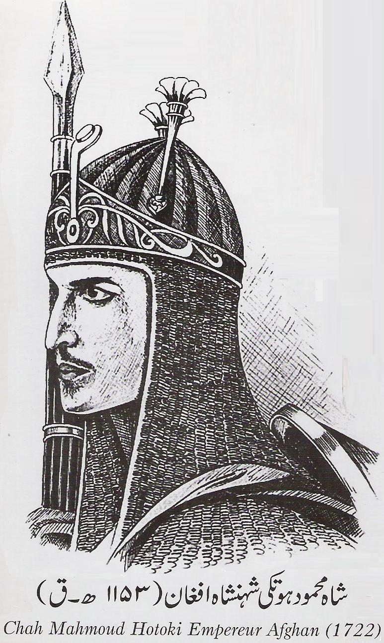 Shah Mahmud Hotak, son of Mirwais Khan Hotak from Kandahar in Afghanistan, defeated the Persian Empire (Shia Safavids) in early 1700s and became King of Persia in 1722.